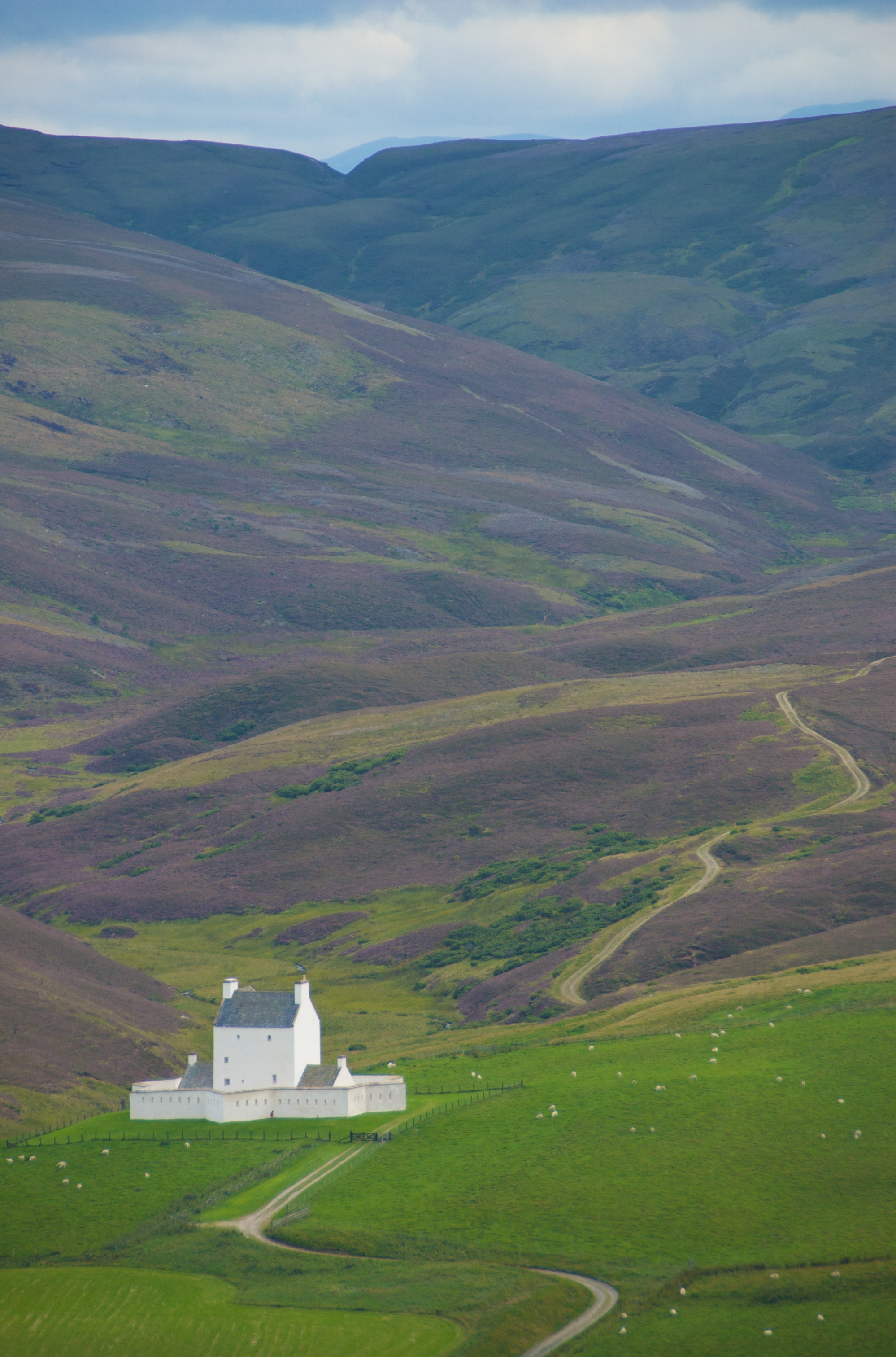 Corgarff Castle